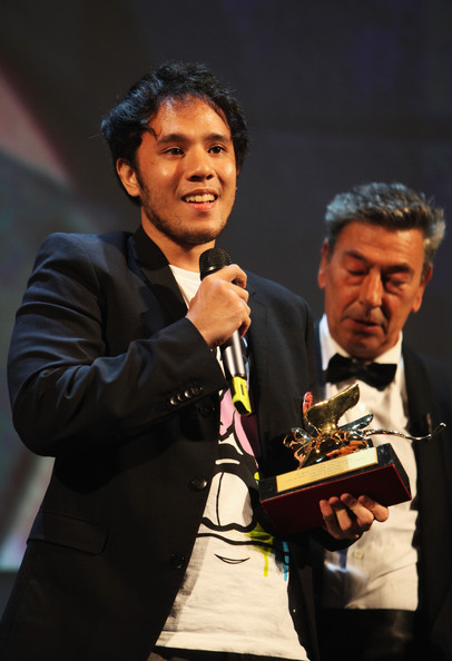 Pepe Diokno wins the Lion of the Future Award at the 2009 Venice Film Festiva